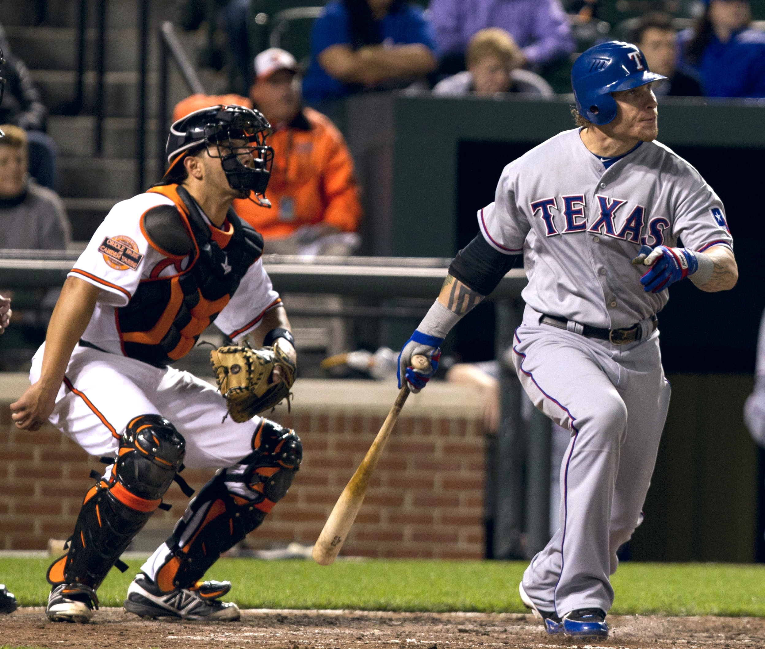 Josh Hamilton #32 of the Texas Rangers hits a home run in the ninth inning against the Baltimore Orioles at Oriole Park at Camden Yards on May 7, 2012 in Baltimore, Maryland.